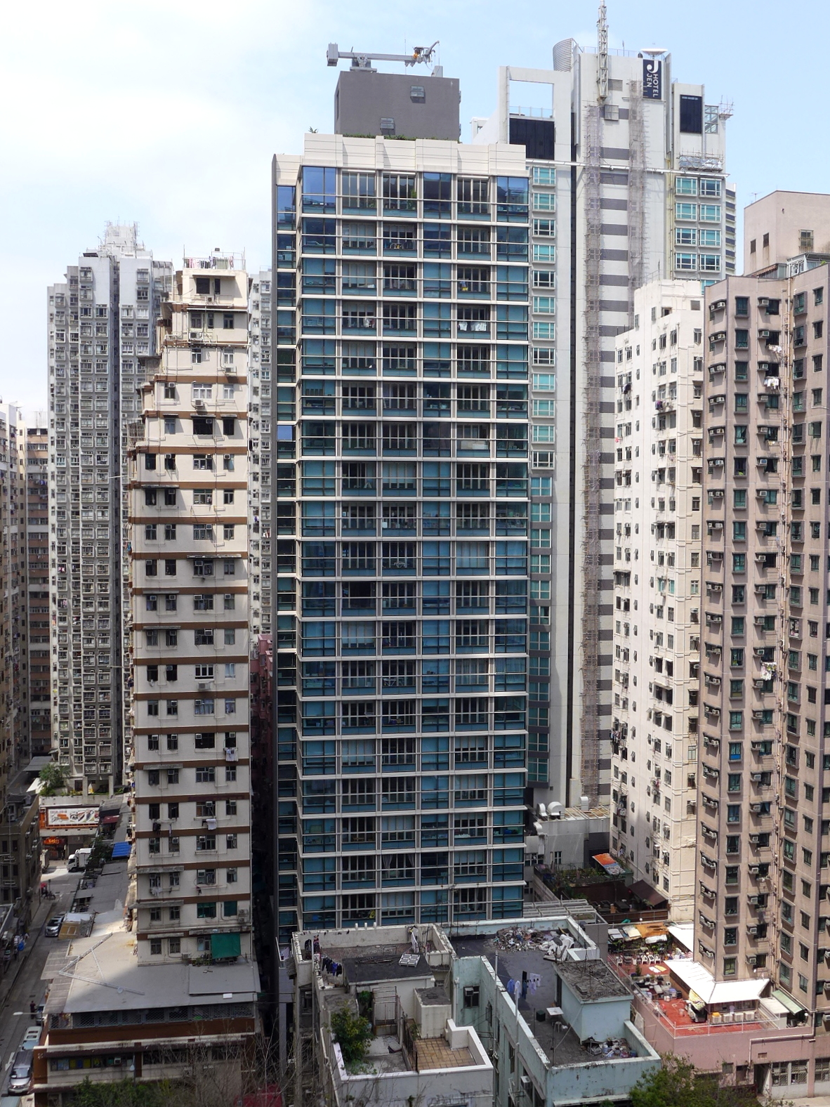 Eight South Lane